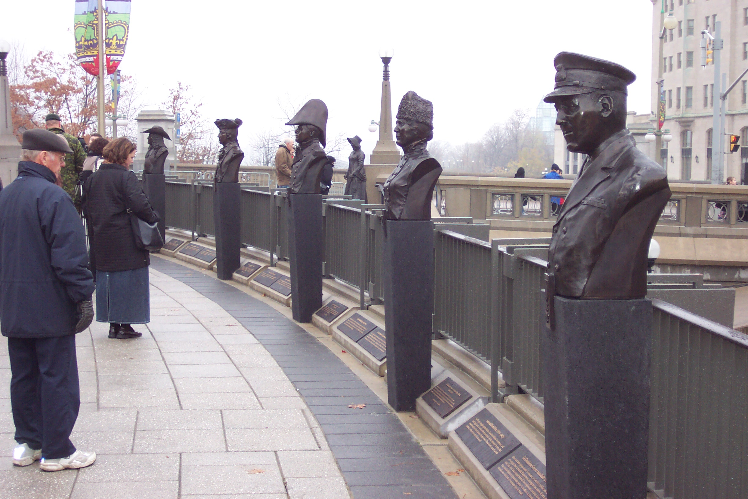 These five busts on the west side of the Valiants Memorial facing the National War Memorial in Ottawa, Canada represent each of the five periods depicted by the memorial. Shown from left to right are Frontenac (French Régime), Butler (American Revolution), Brock (War of 1812), Pope (World War I), and Thomas (World War II).